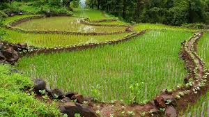 a snap of village